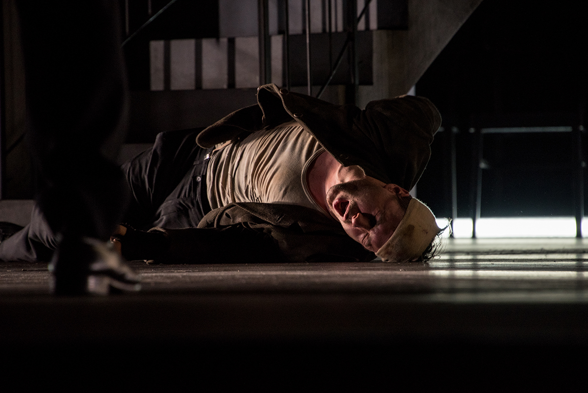 Niemand, Tragödie in 7 Bildern by Ödön von Horvath, world premiere at the Theater in der Josefstadt, Vienna, 1st of september 2016, directed by Herbert Föttinger